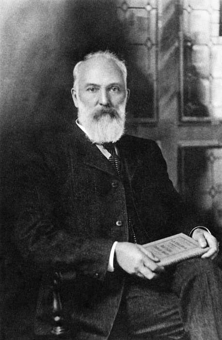 Portrait of Theodore Lukens